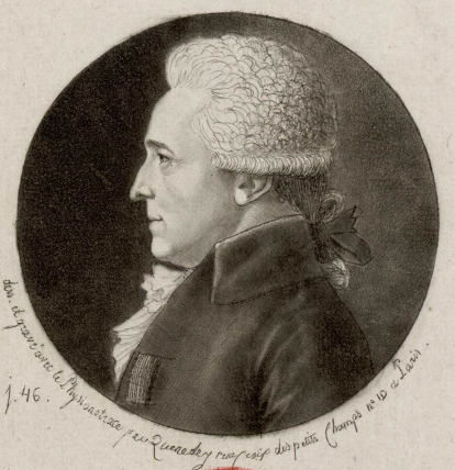 Portrait of Antoine-Raymond-Joseph Bruny D’Entrecasteaux (1739-1793)